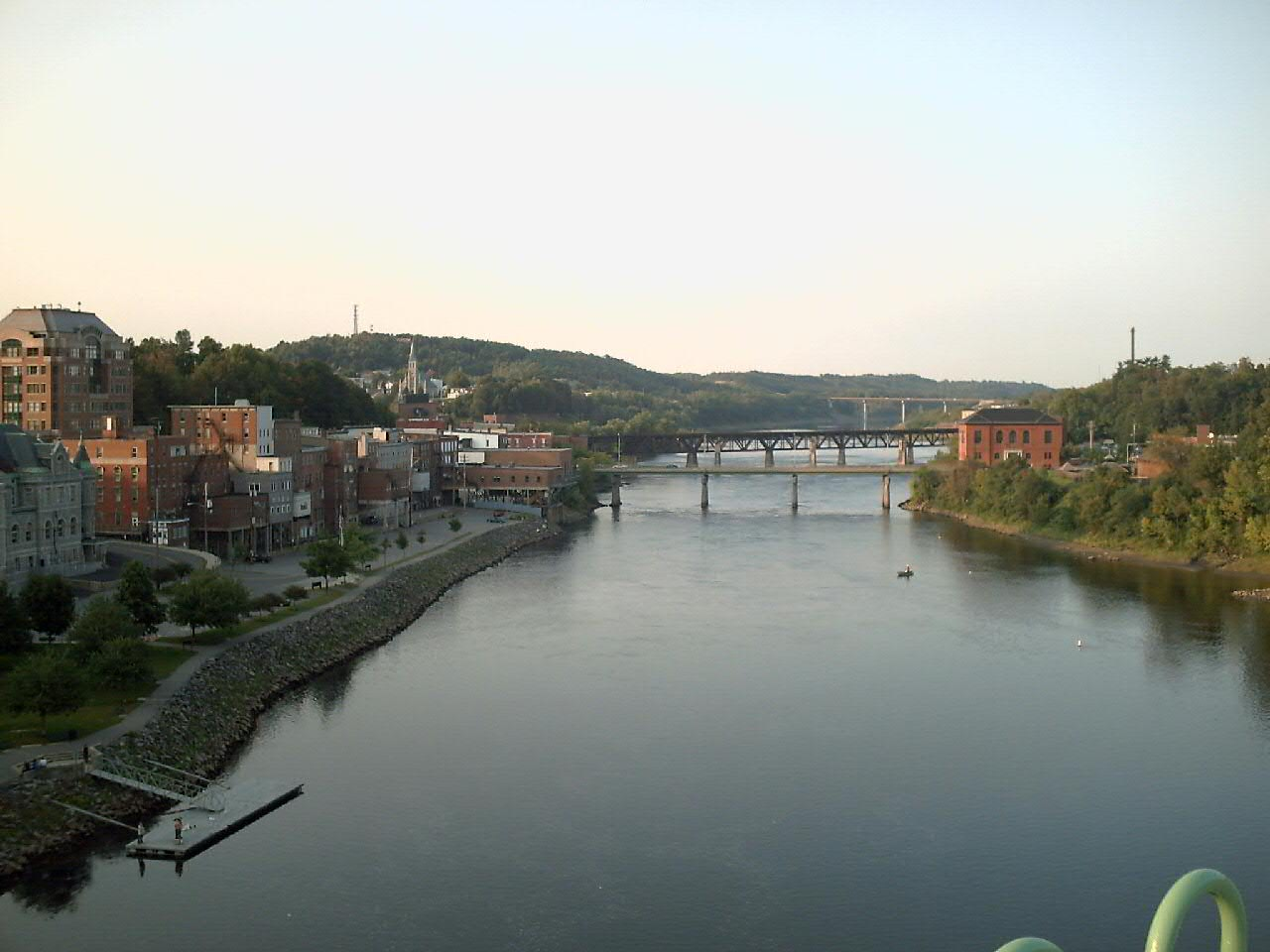 Augusta, Maine --- taken from 'the big bridge.'